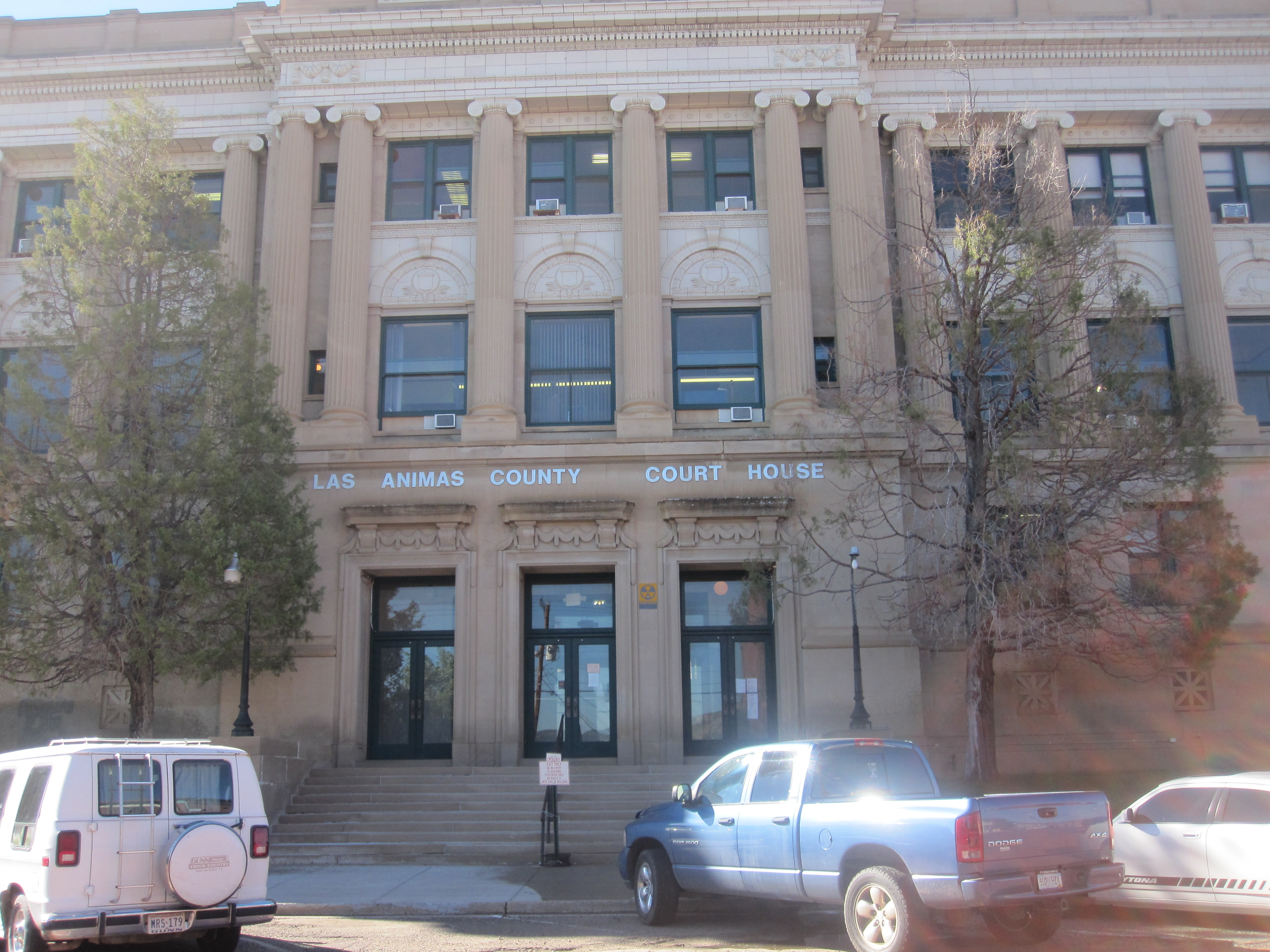 I took photo with Canon camera in Trinidad, CO.